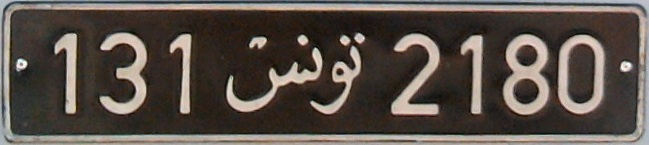 Standard Tunisian licence plate, Tunisia